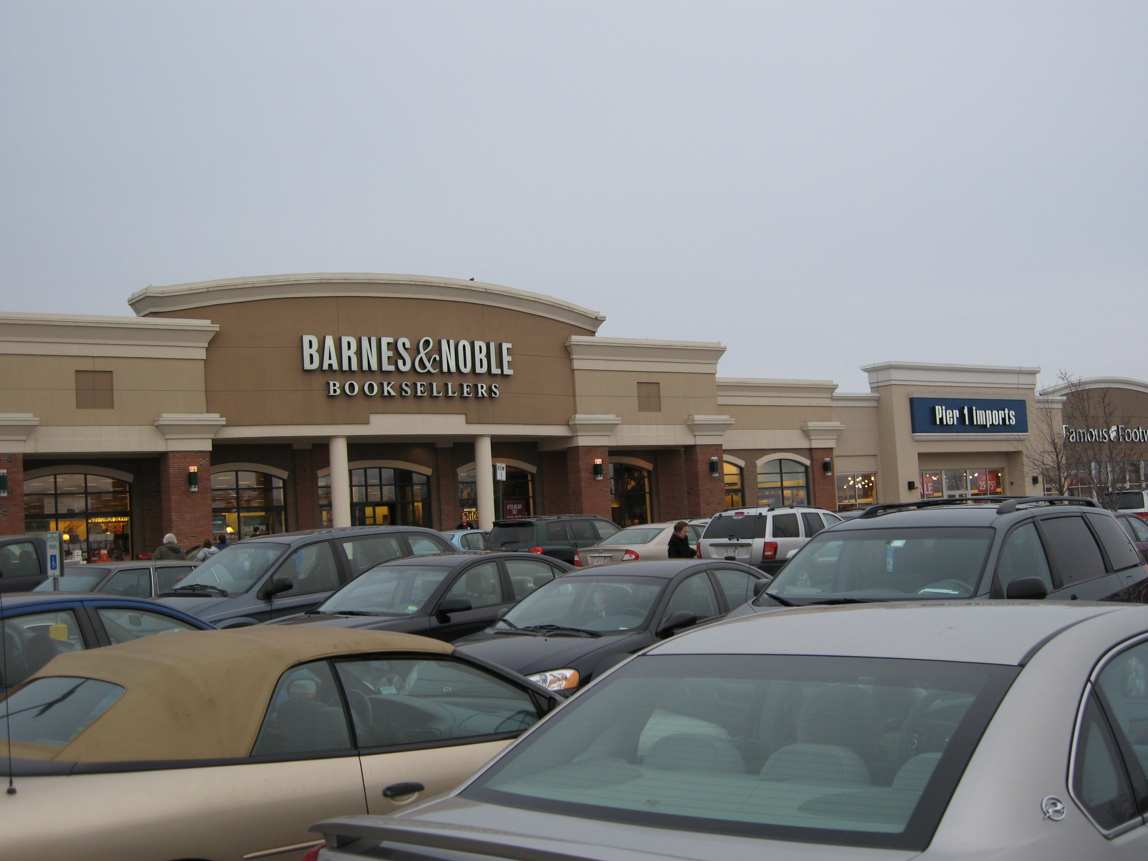 Another section of Mountain Farms Mall